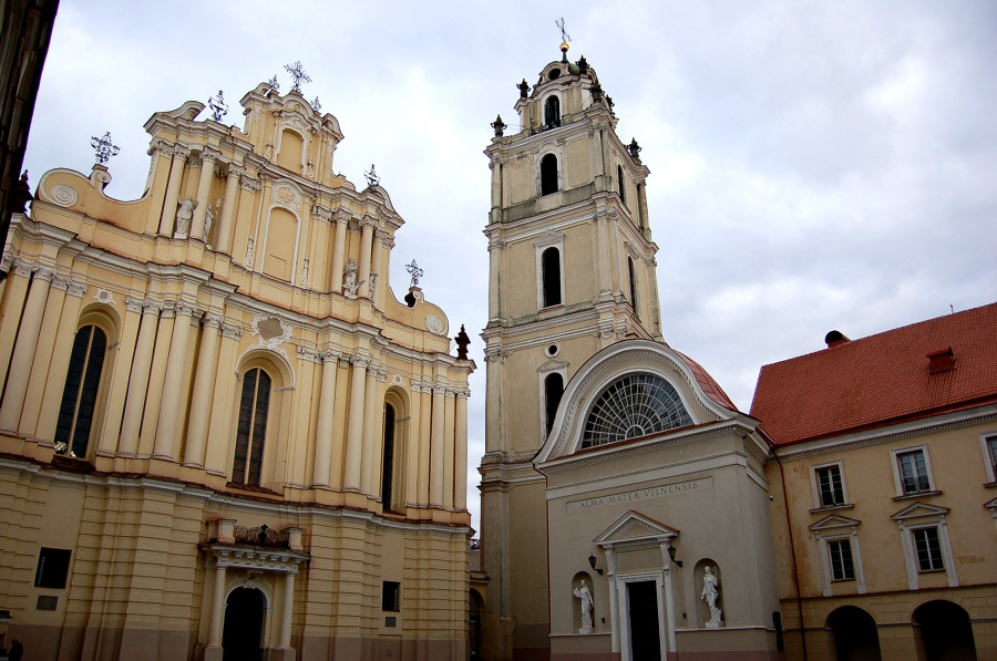 The Grand Courtyard of Vilnius University and the Church of St. John, Lithuania